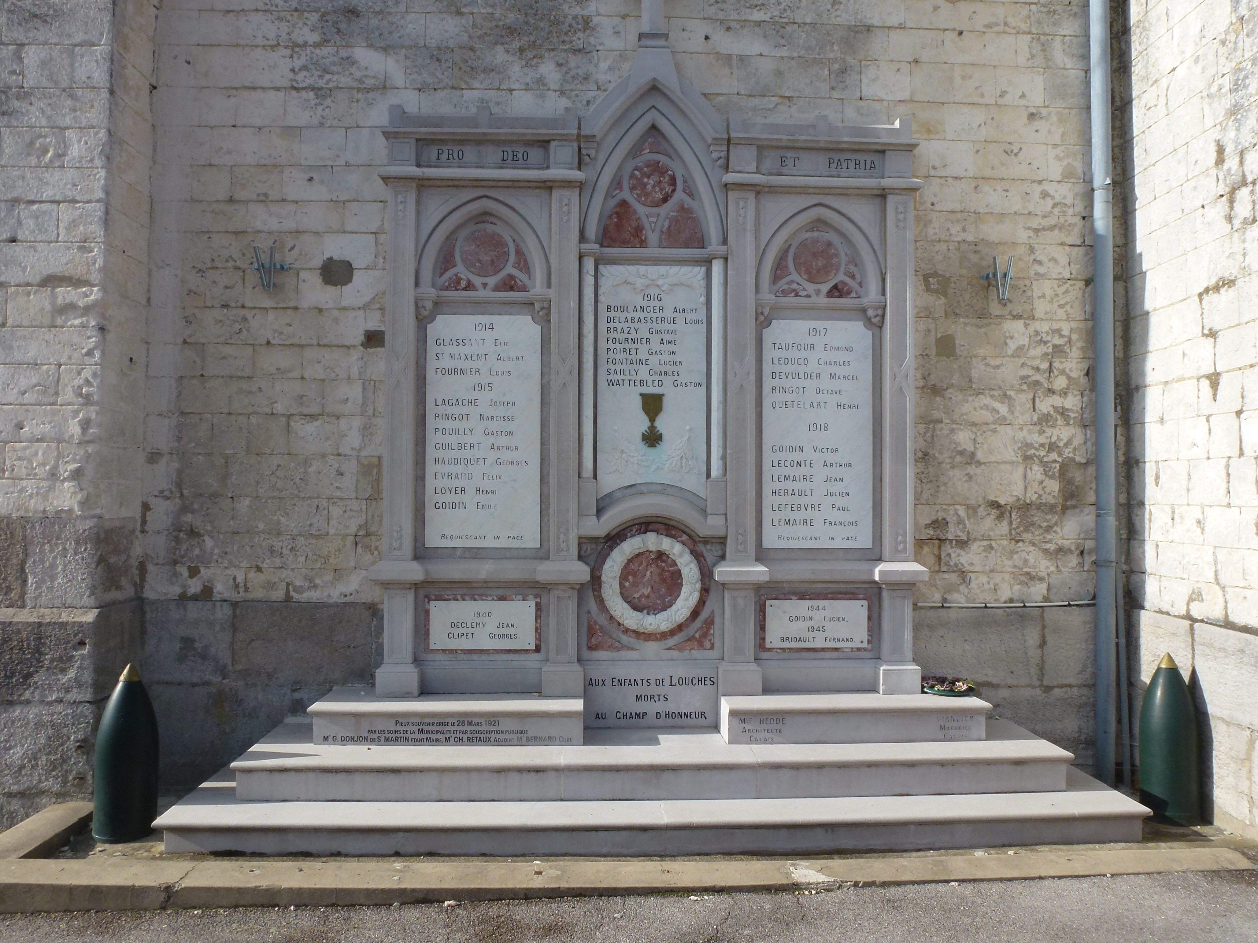 Louches (Pas-de-Calais) monument aux morts